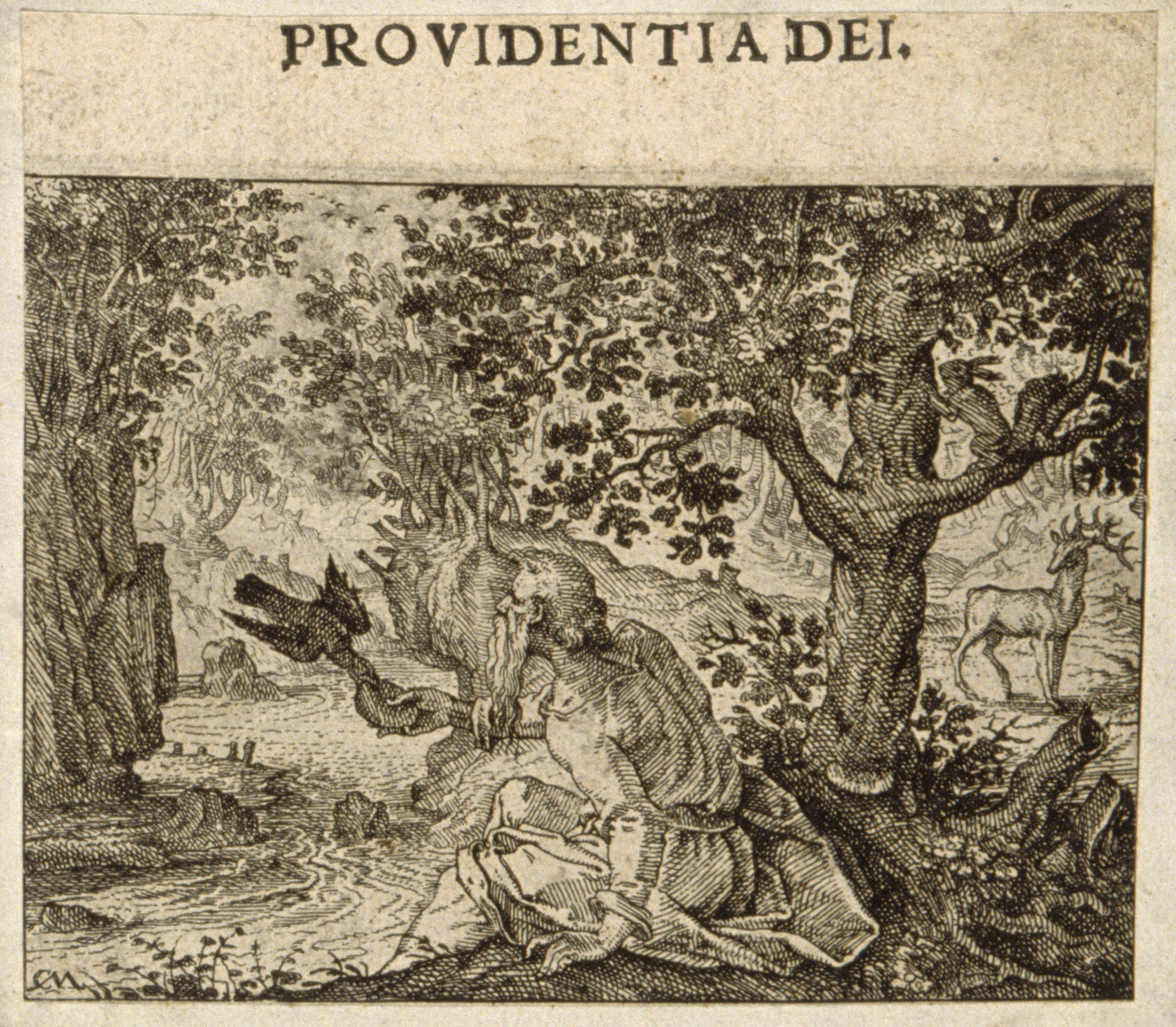 The prophet Elias fed by a raven; representing providence. Etching by C. Murer after himself, c. 1600-1614. Iconographic Collections Keywords: Christoph Murer; Elijah